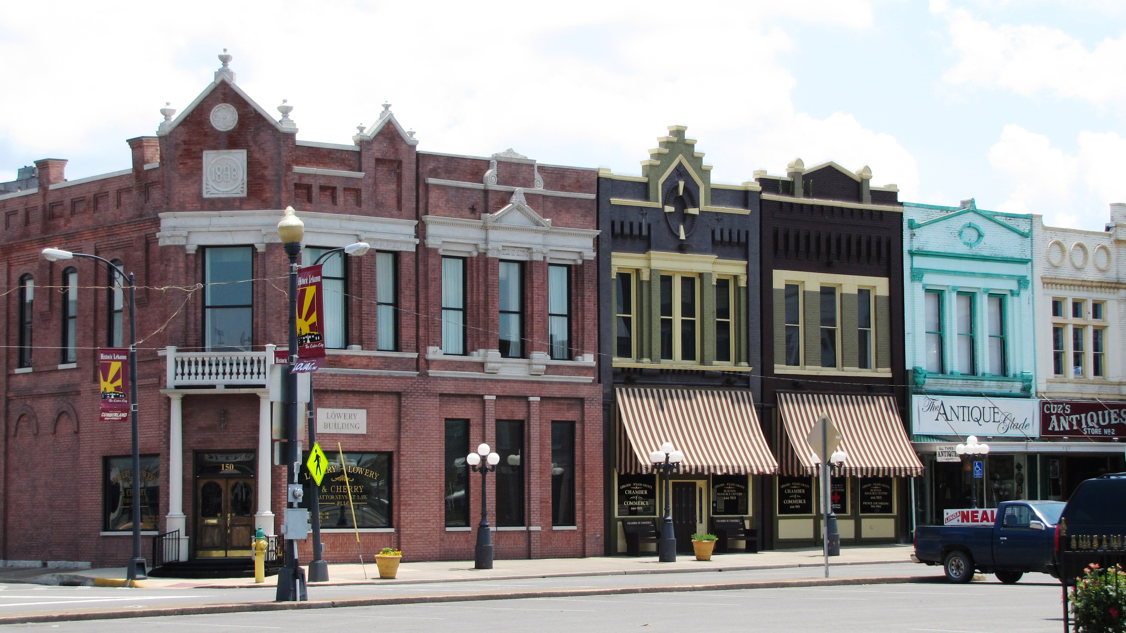 The southeast corner of the Public Square (junction of Main and Cumberland streets) in Lebanon, Tennessee, USA. Most of these buildings are listed as contributing properties in the NRHP-listed Lebanon Commercial Historic District.